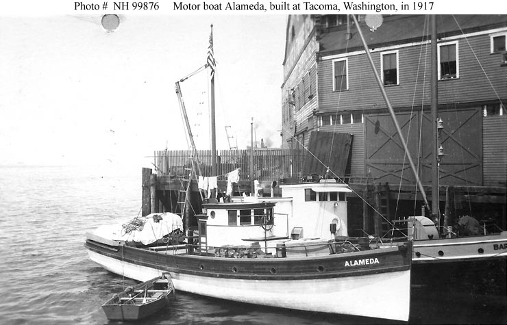 Motorboat Alameda, considered for United States Navy service as a patrol vessel during World War I but never acquired by the Navy